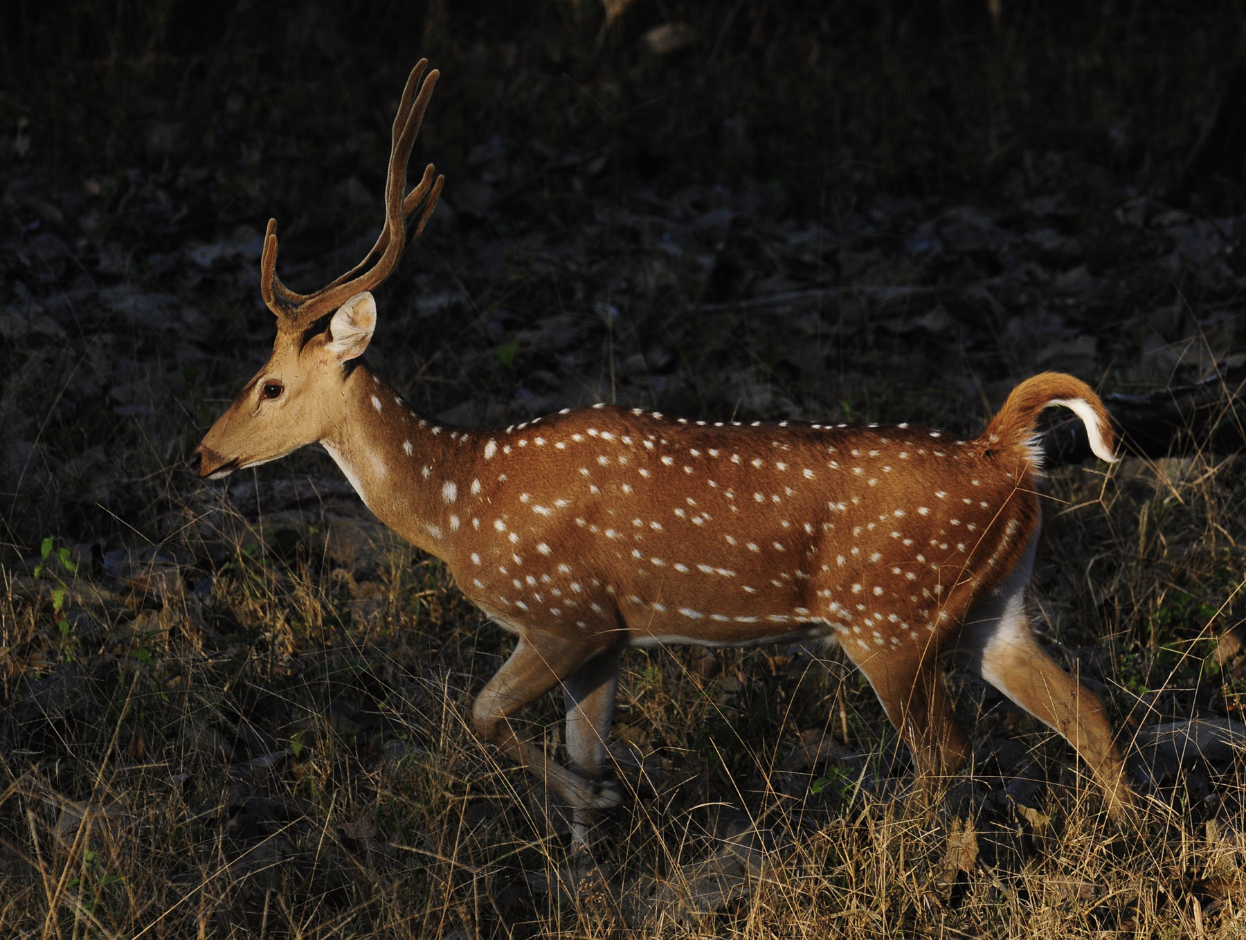 Spotted Deer/Chital stag in Kabini